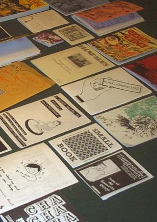 A photo taken of some of the zines we bought from the London Zine Symposium (on that day).